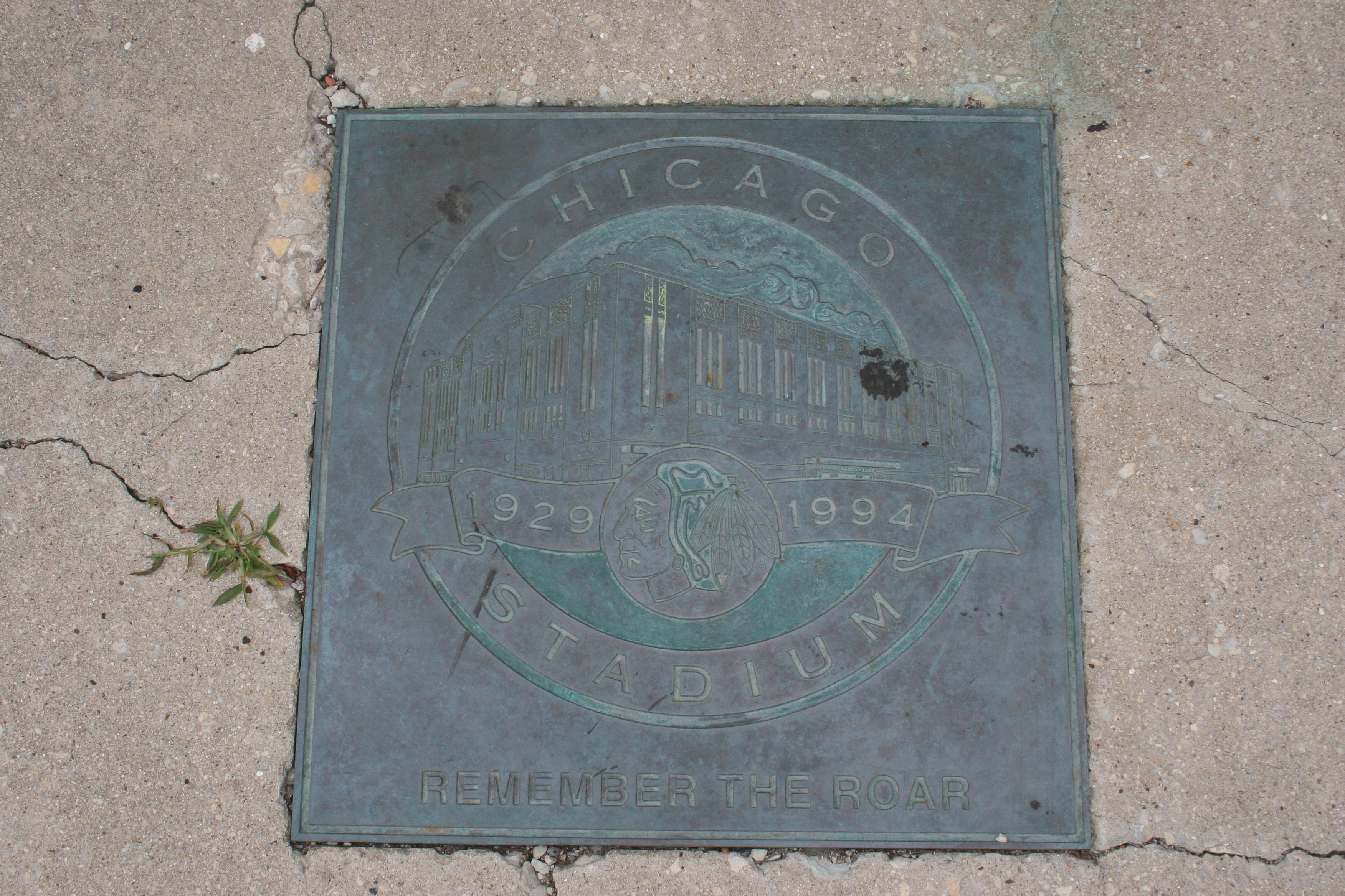 Commemorative plaque in pavement at the location of Chicago Stadium